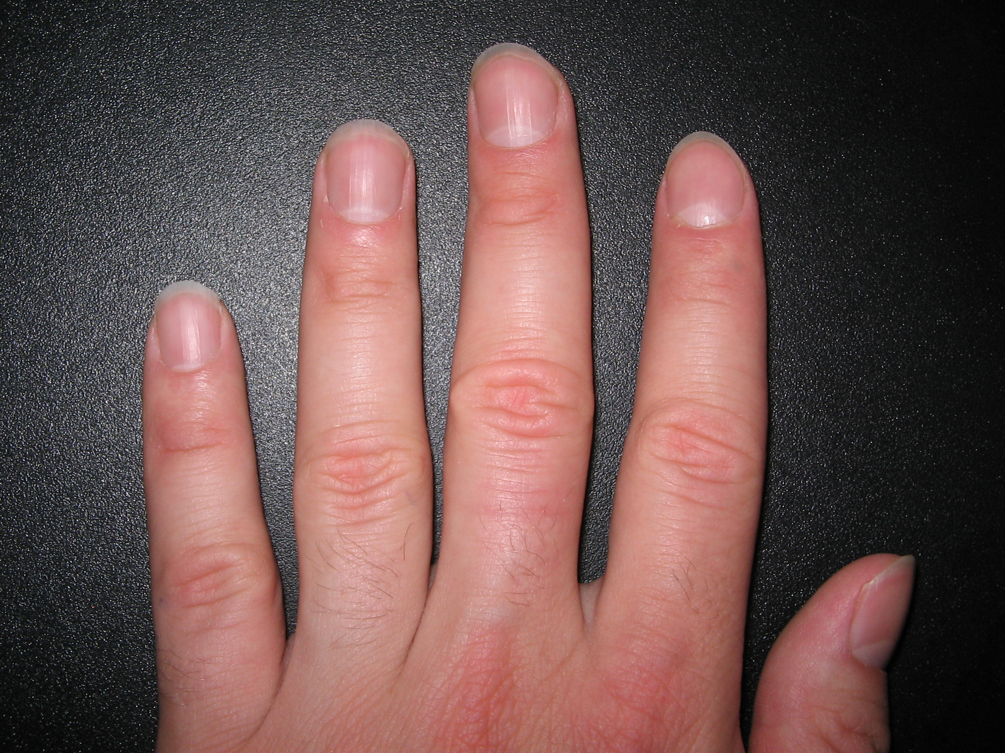 Fingernails, about 2mm long, just the right length